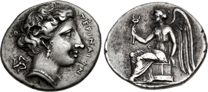 Bruttium, Terina. Circa 300 BC. AR Drachm (16mm, 2.29 g, 7h) Head of the nymph Terina right; wearing triple-pendant earring and beaded necklace; TEPINAIΩN to right, triskeles behind Nike seated left on plinth, holding kerykeion w. right hand, left hand resting on plinth.